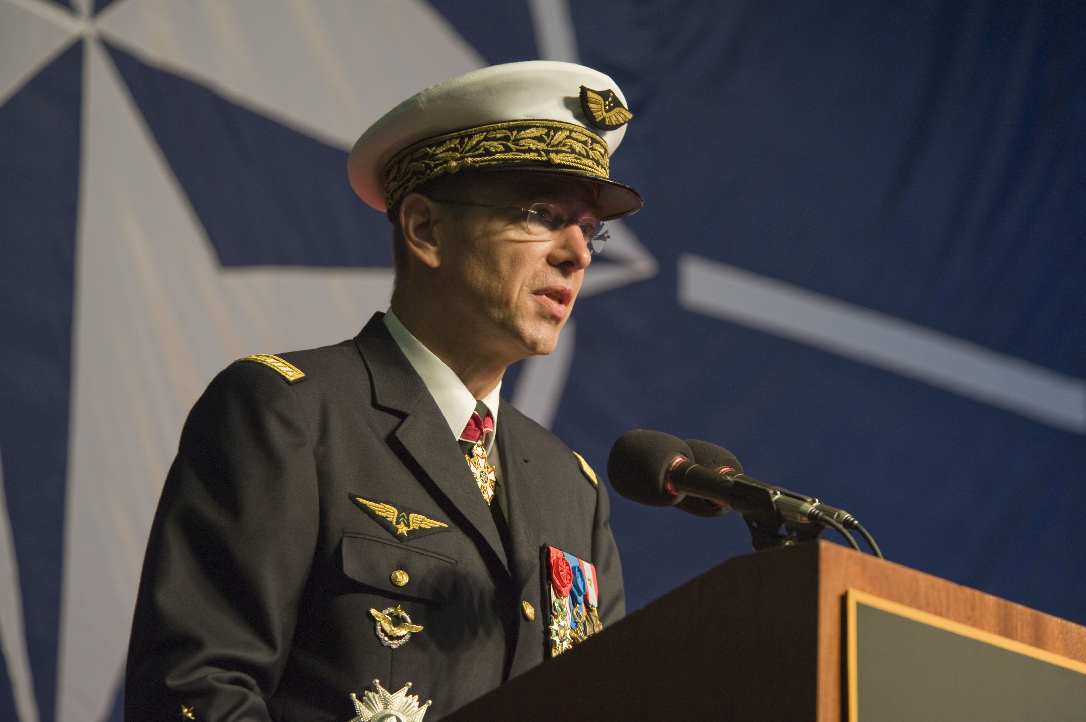 French air force Gen. Stéphane Abrial delivers his first address as supreme allied commander transformation Sept. 9, 2009, during the Allied Command Transformation (ACT) change of command ceremony aboard aircraft carrier USS Dwight D. Eisenhower (CVN-69) in Norfolk, Va. ACT is NATO's only strategic command in North America.